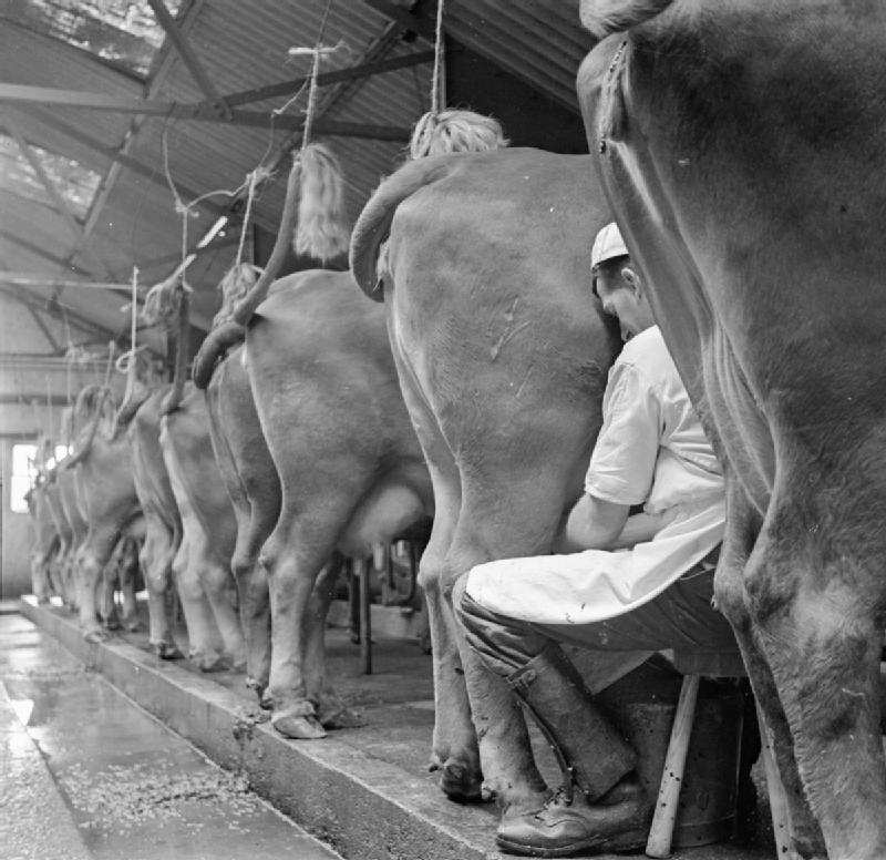 Parsonage Farm- Dairy Farming in Devon, England, 1942 A 'cow man' or dairy worker milks cows by hand at Old Parsonage Farm, Dartington. Although electrical milking apparatus is used on this farm, some cows respond much better to hand-milking. The cows all have their tails tied up to strings hanging from the roof to keep them out of the way of the cow man's face whilst milking.